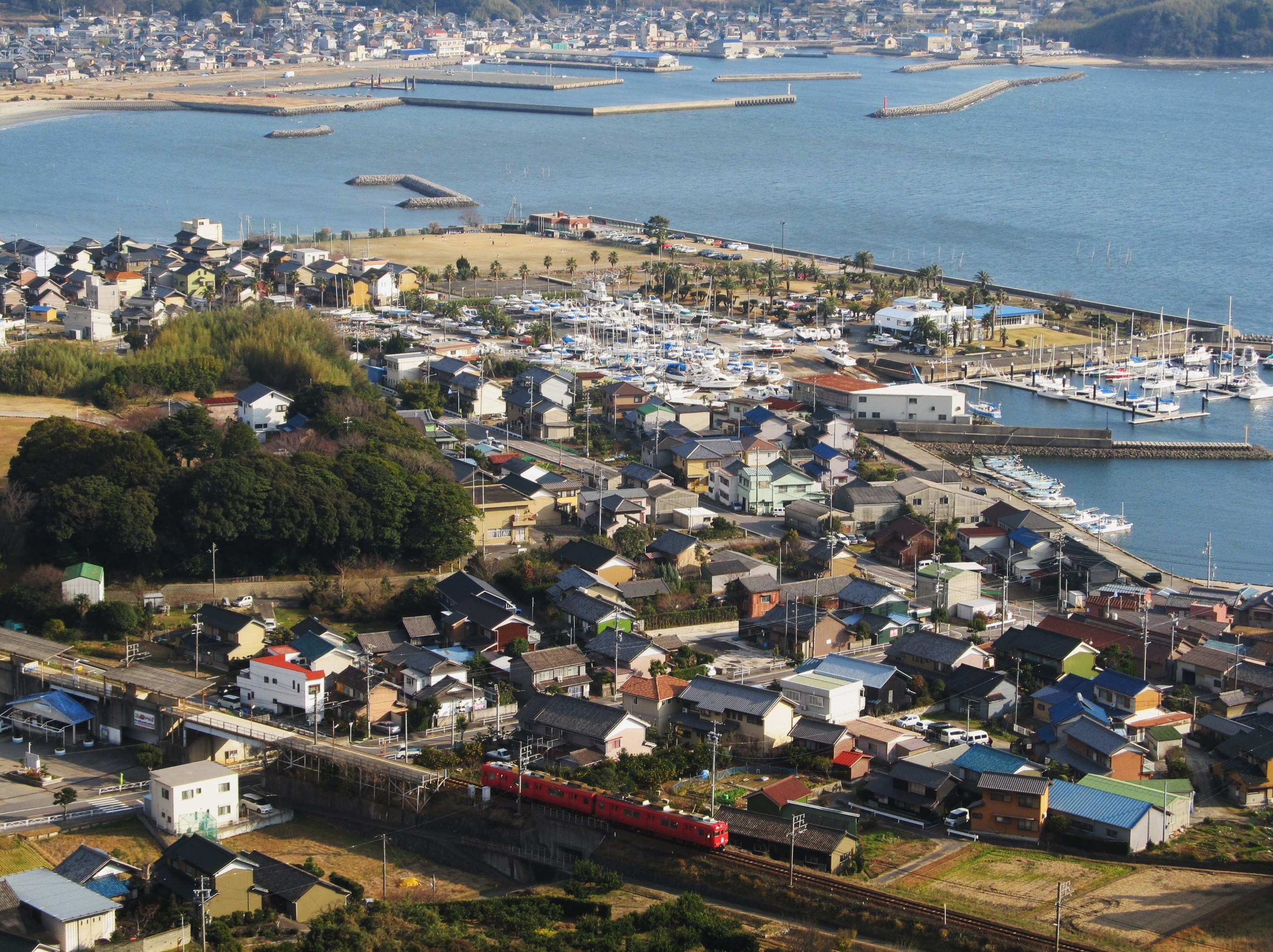 Scenery of the Gamagōri Line